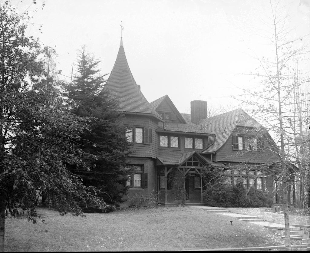 "Tanglebank" on Connecticut Avenue, Washington, DC circa 1920. Library of Congress, Prints and Photographs Division.